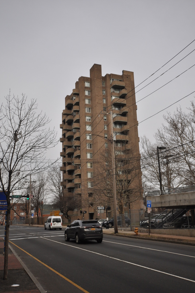 George W. Crawford House, New Haven, Connecticut.